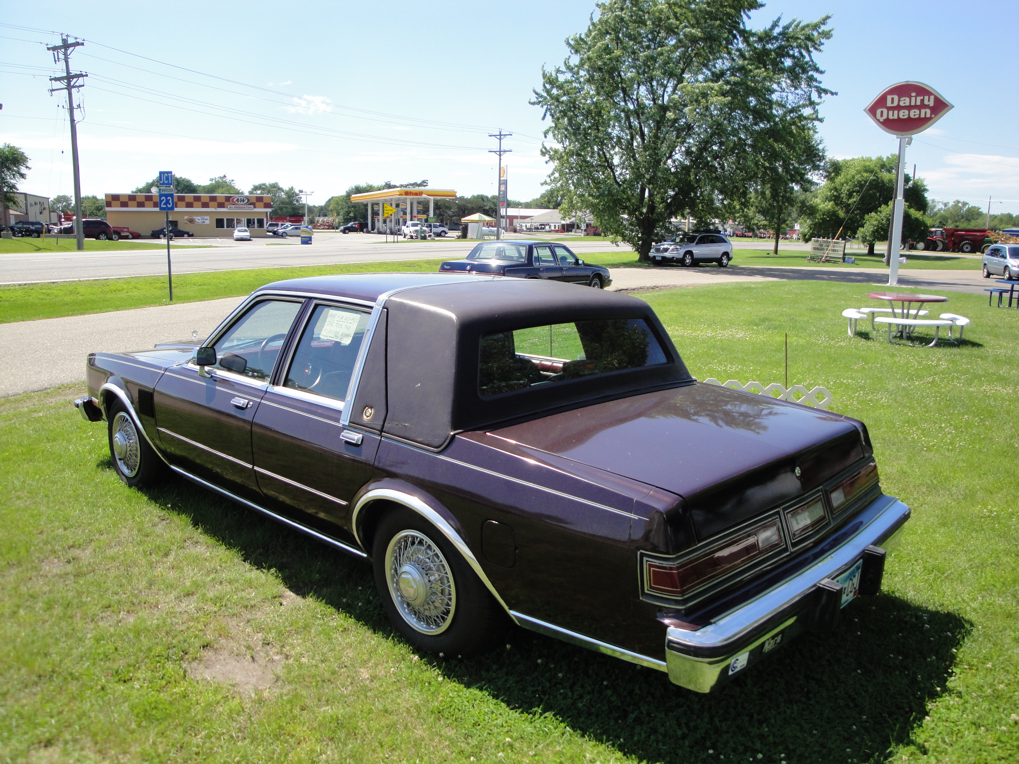 88 Chrylser Fifth Avenue